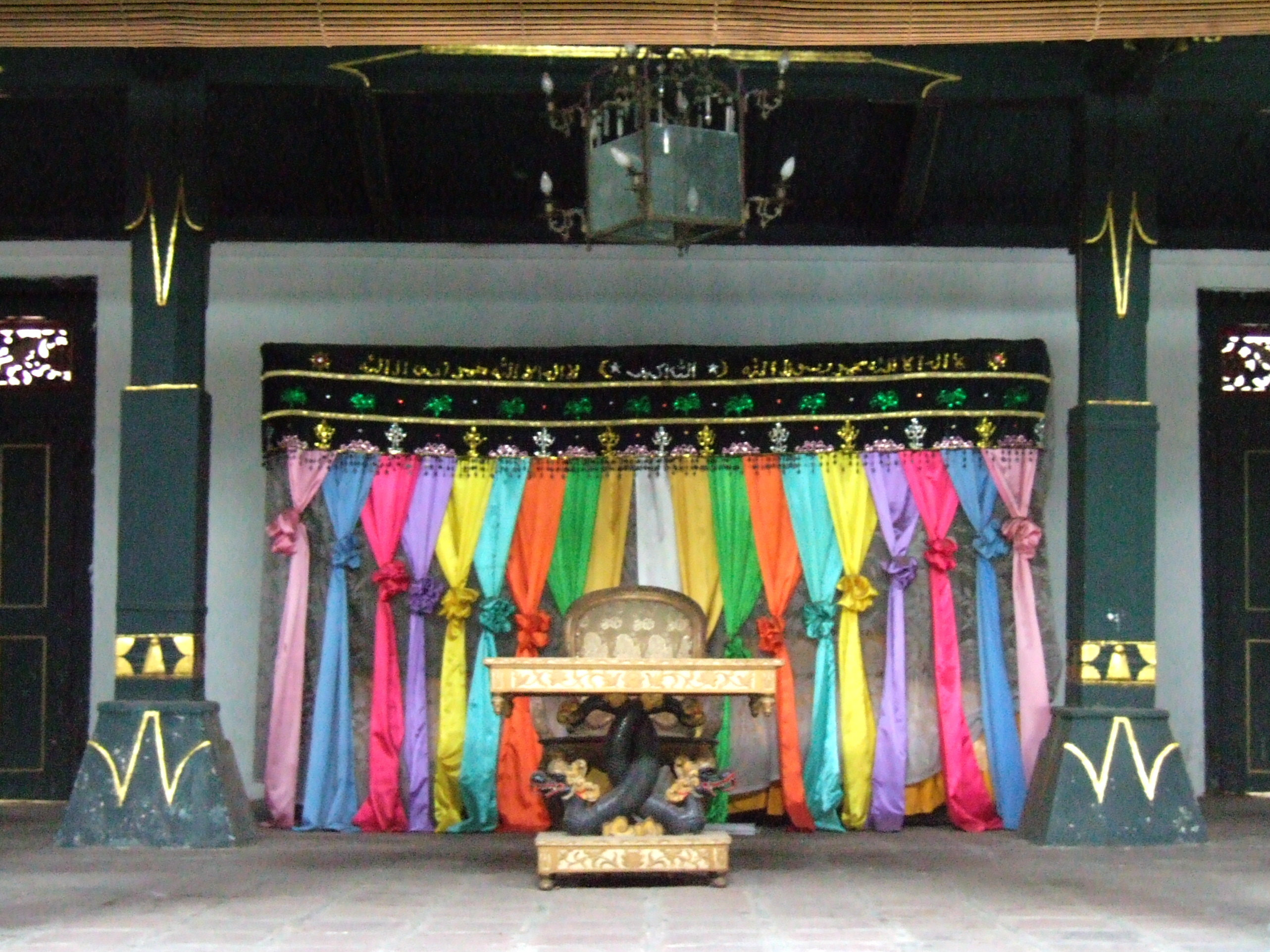 Sultan's throne at Bangsal Panembahan Keraton Kasepuhan, Cirebon, Indonesia